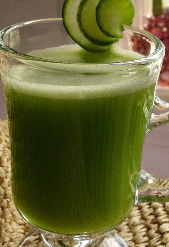 Cucumber, celery & apple juice